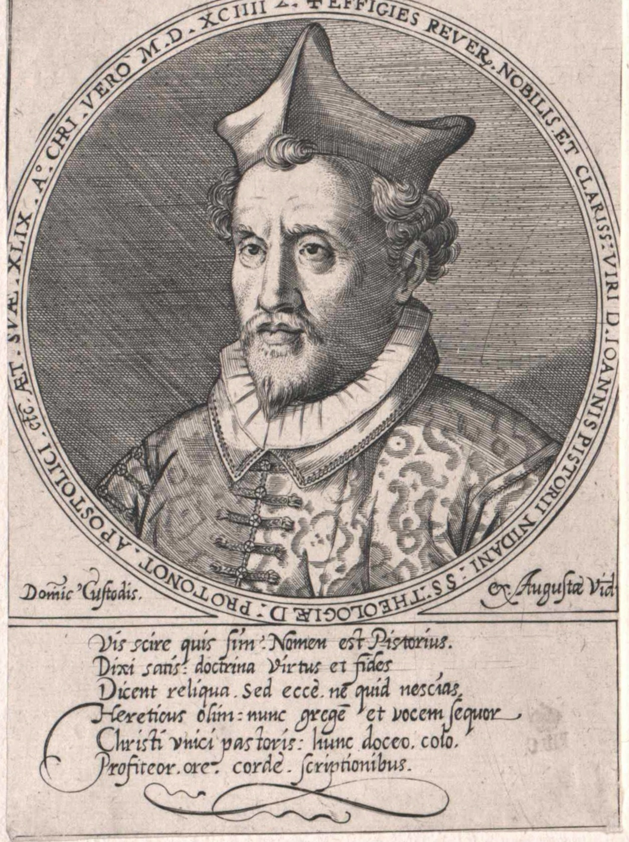 Johannes Pistorius der Jüngere (1546-1608), Arzt, Historiker und kath. Priester